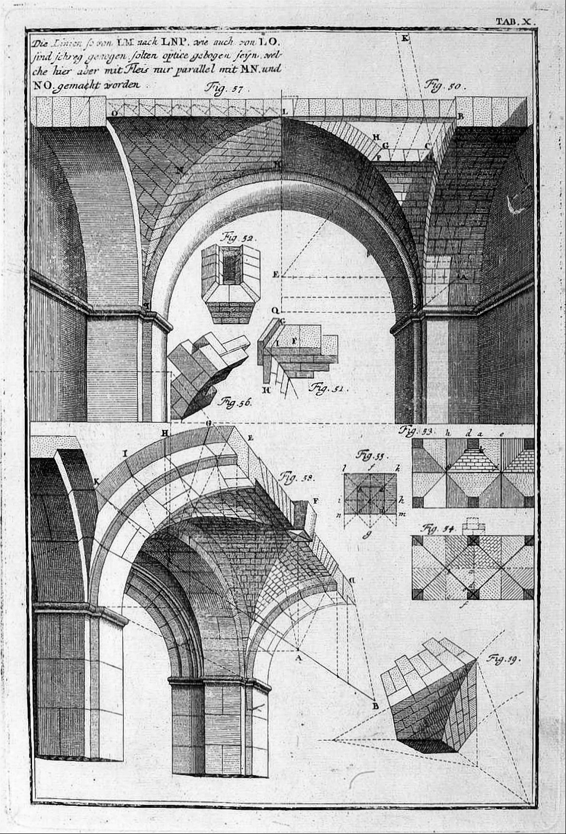 „Synopsis Architecturae Civilis eclecticae“. Historical illustrated text-book of architecture. Volume 4, plate No. 10.